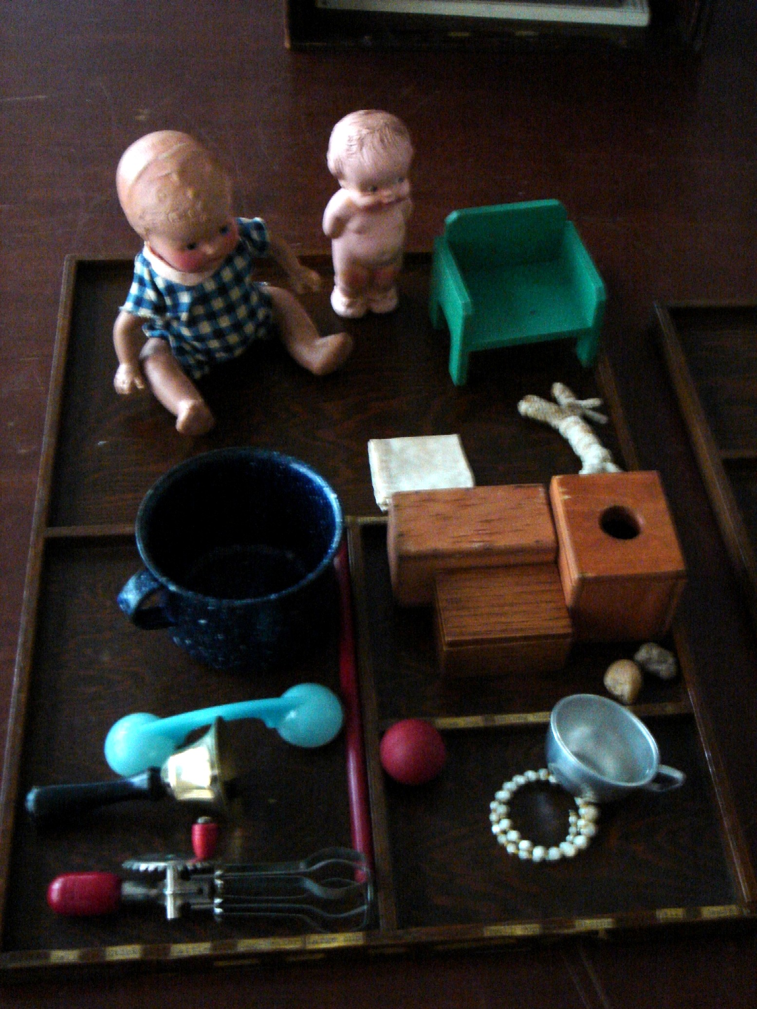 Photo taken by person uploading it.